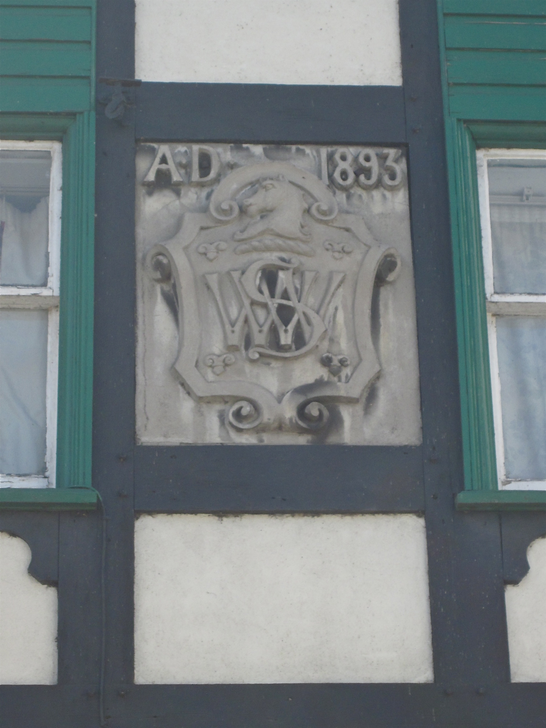 Bryniargo House, Rhayader. Date stone (1893) on gable of Bryniago House- SWW intertwined, initials of S.W.Williams.